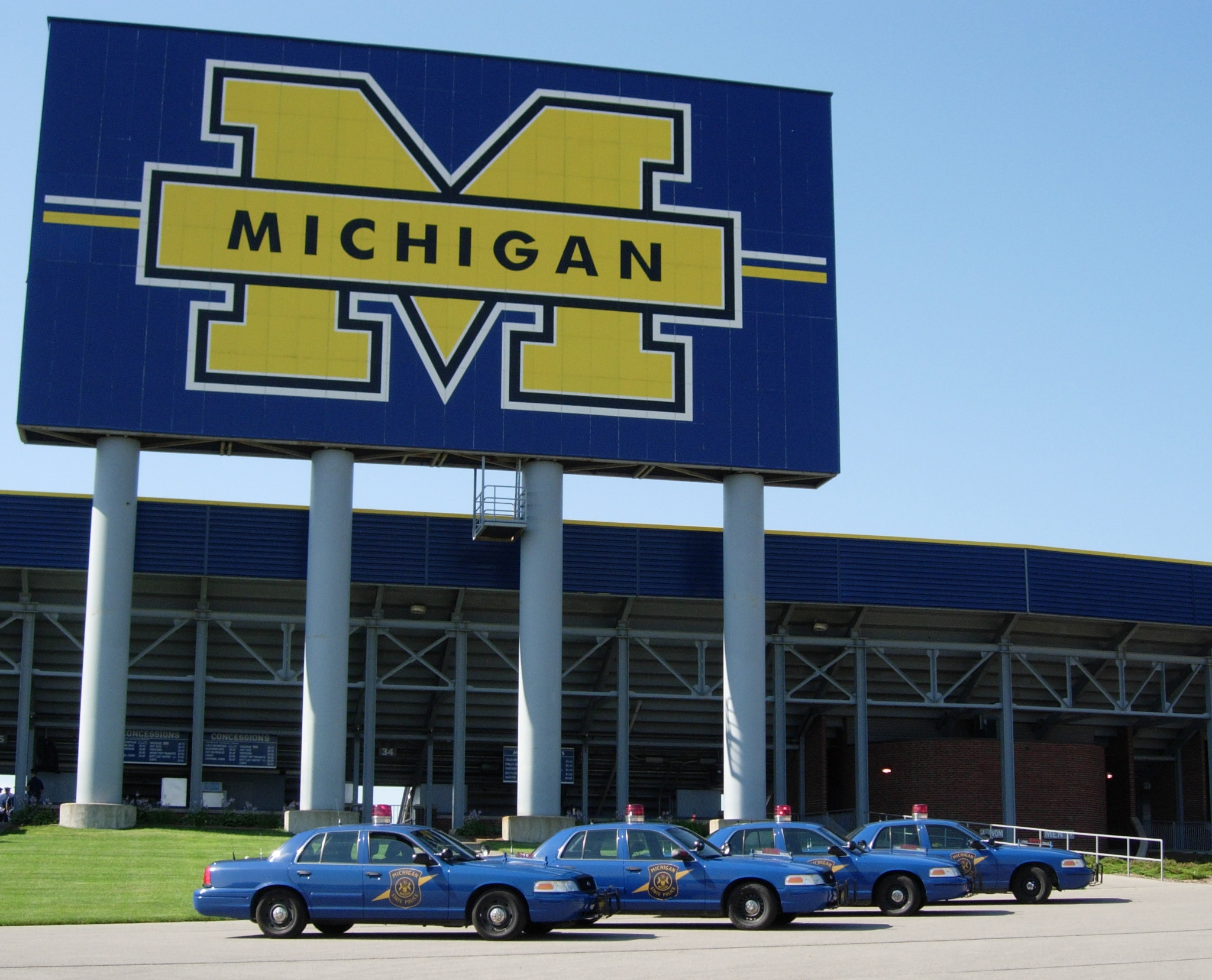 Ford Crown Victoria Police interceptors of the Michigan State Police